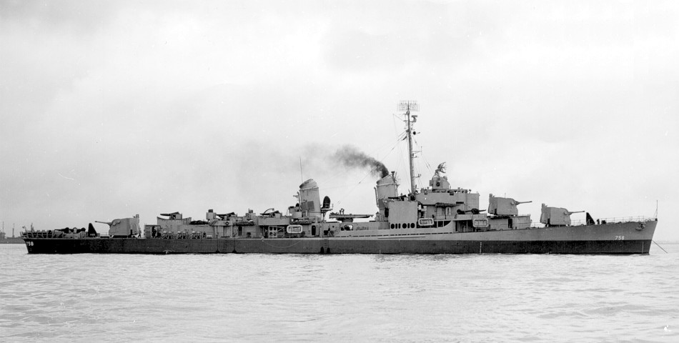 The U.S. Navy destroyer USS Strong (DD-758) at anchor off Bethlehem Steel, San Francisco, California (USA), on 28 May 1945. Note that she was completed with the after set of torpedo tubes replaced by a 40 mm quadruple mount. Strong is painted in Camouflage Measure 22.